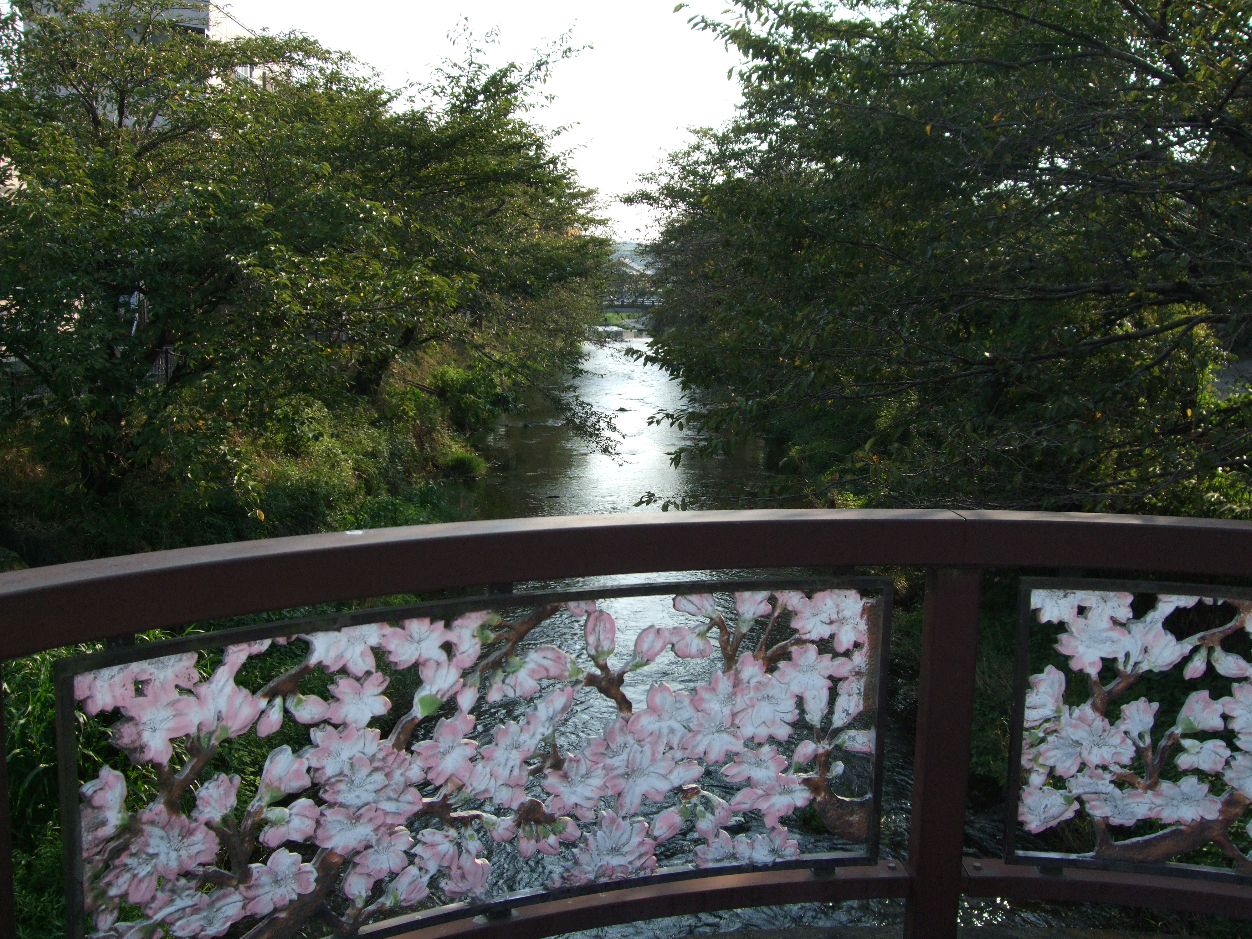 Kitta river in Gifu prefecture,Japan